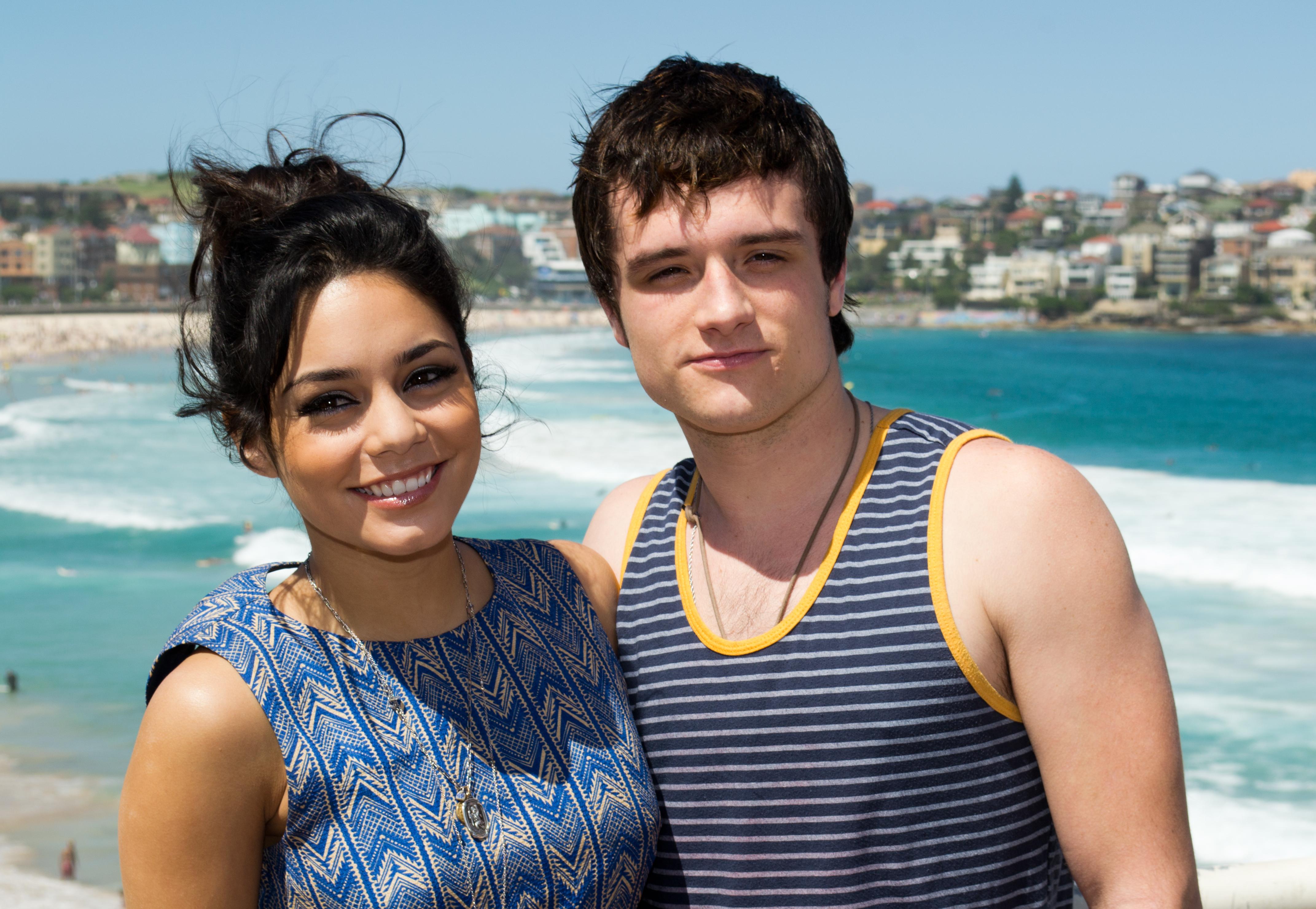 Vanessa Hudgens & Josh Hutcherson at Bondi Beach in January 2012.